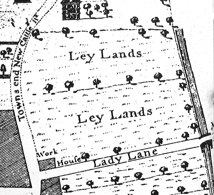 Detail from the 1726 map of John Cossins "A New & Exact PLAN of the Town of LEEDES". Showing the Ley Lands and Lady Lane (still exists today). The road on the left has now been renamed as Vicar Lane, being an extension of the original Vicar Lane to the South.